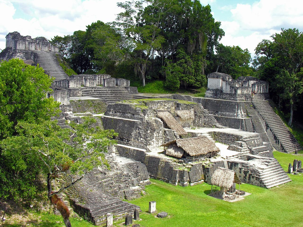 Looking down on the North Acropolis from Temple II. It is located north of the Great Plaza. Diverse ceremonial structures, as well as the figureheads can be observed there. The base of Temple 33 occupies the centre of the photo.